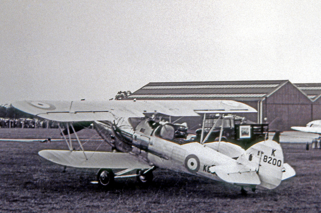 Hawker Demon I K8200 of 64 Squadron RAF at Manchester Airport in 1938